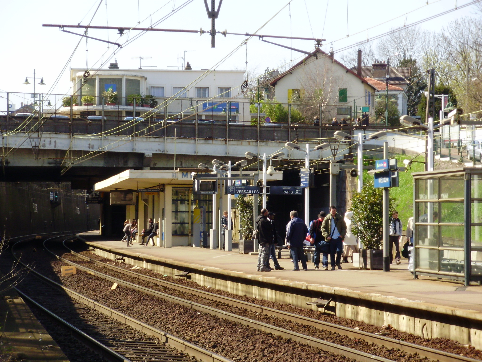 Meudon station - central platform, Hauts-de-Seine, France